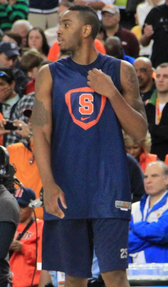 Syracuse Orange men's basketball player Rakeem Christmas